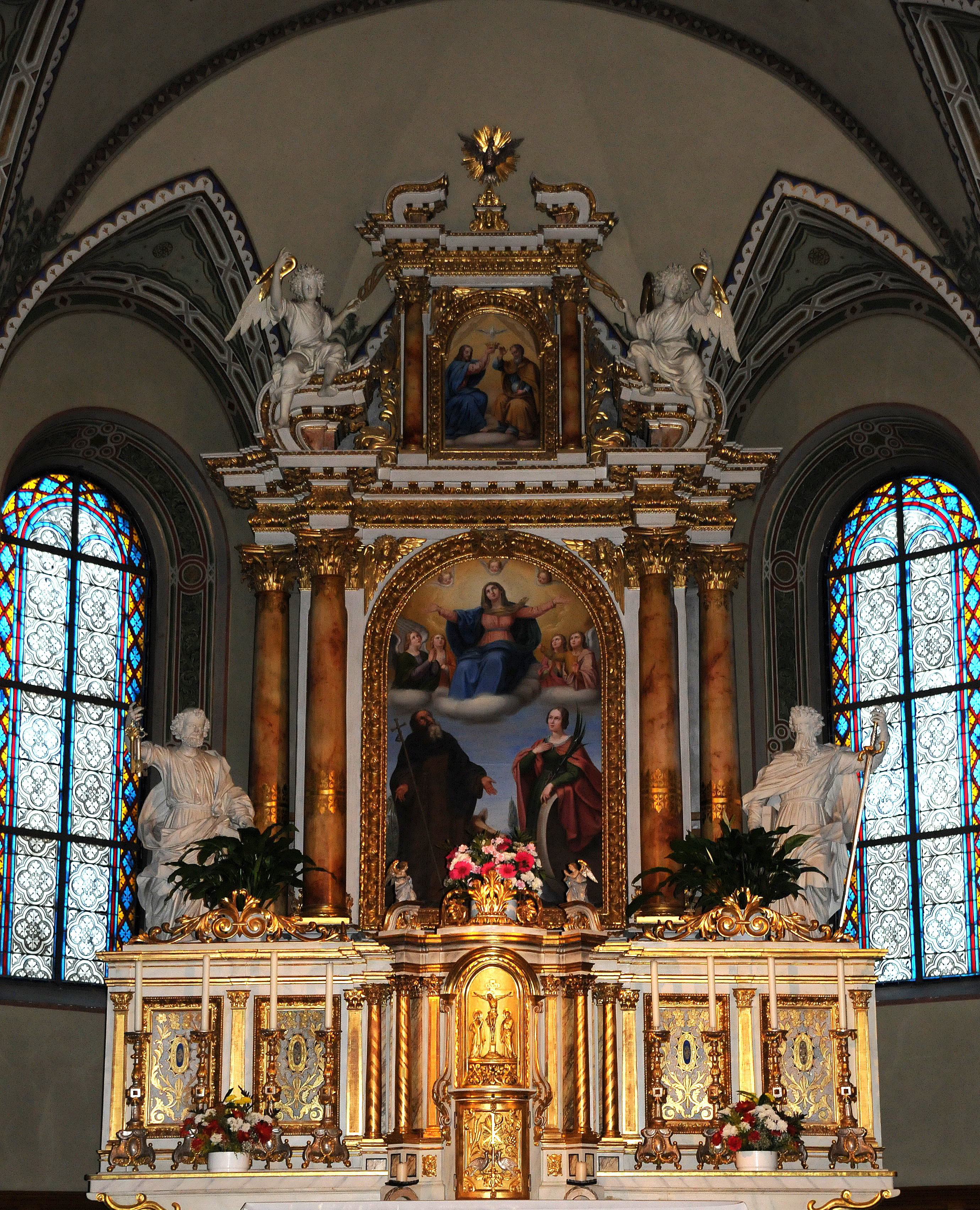 Altar of Santa Cristina Gherdëina